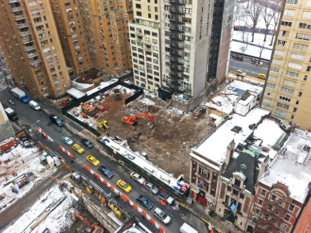 Excavation at 220 Central Park South, late December 2013. 220 Central Park South' is a high rise residential building under construction in Midtown Manhattan, New York City in the U.S. state of New York.